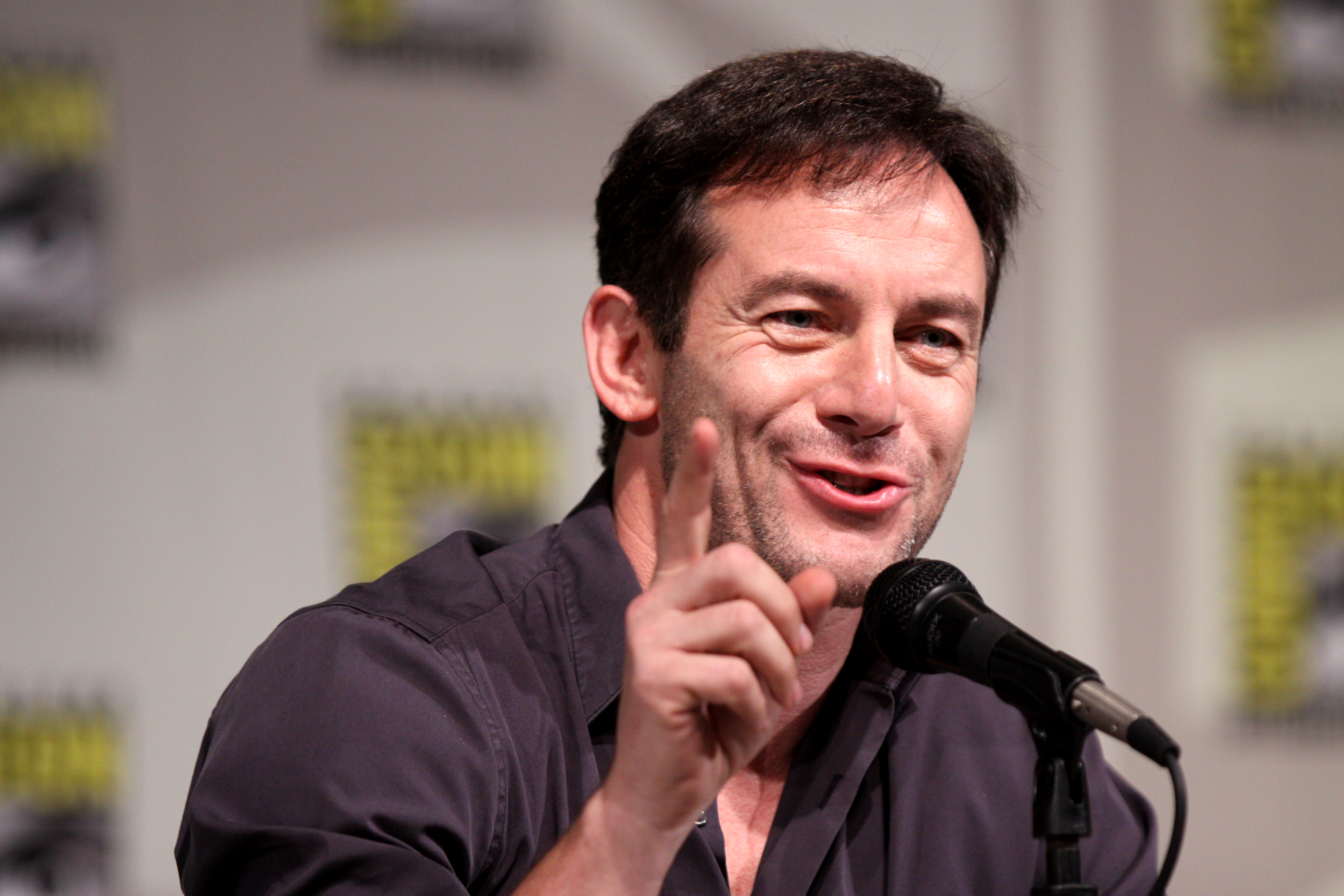 Jason Isaacs at the 2011 San Diego Comic-Con International in San Diego, California.